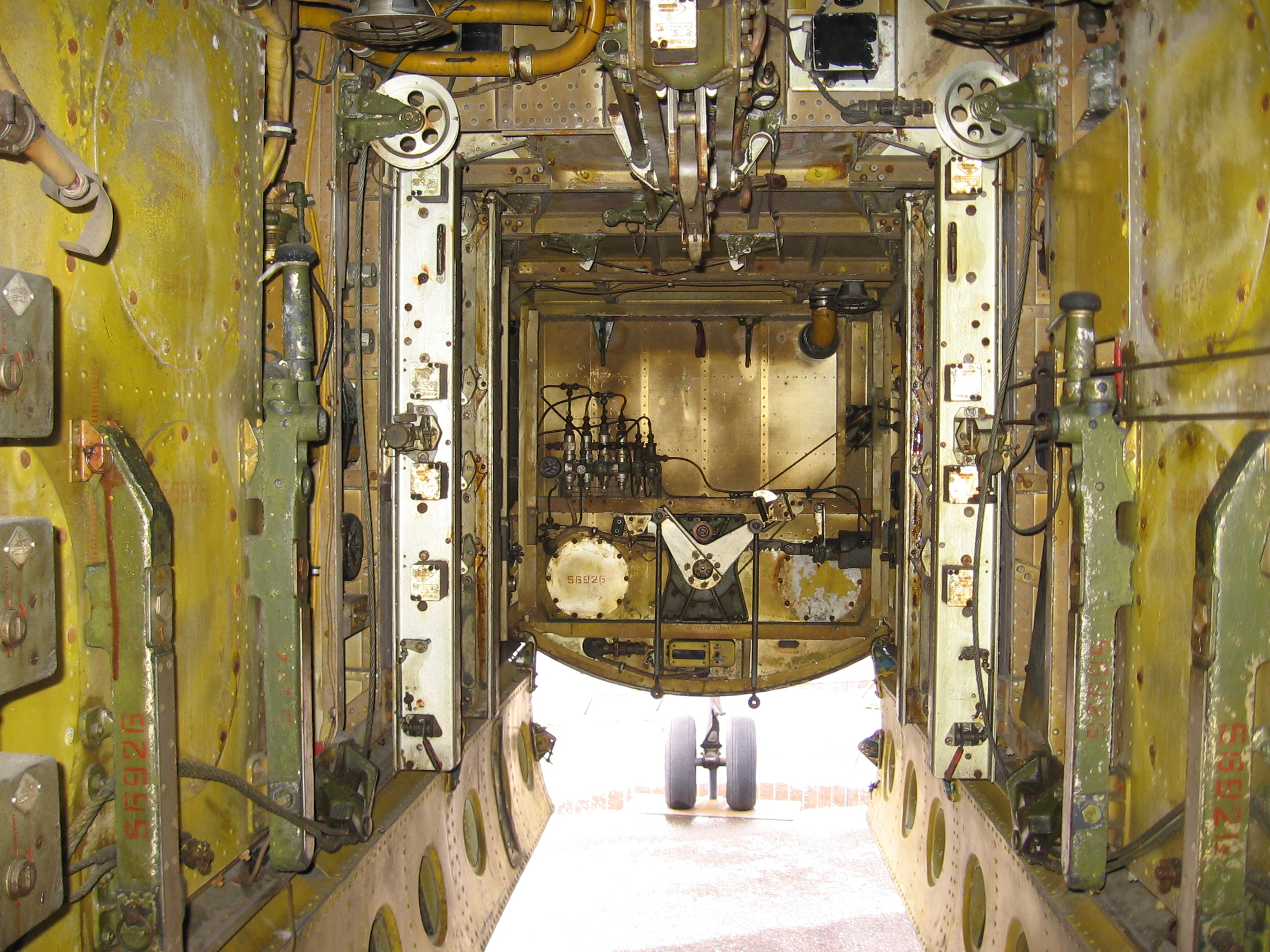 Bomb rack of Ilyushin Il-28, Kbely museum, Prague